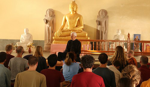 ChristopherTitmussSarnathIndia